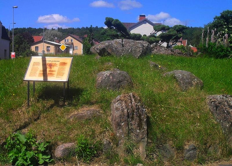 The passage grave "Södra Ängshögen" (i.e. "The Southern Meadow Mound") (RAÄ-nr Falköping 9:1) is situated in the crossing of Scheelegatan and Torstensonsgatan in Falköping, Västergötland, Sweden